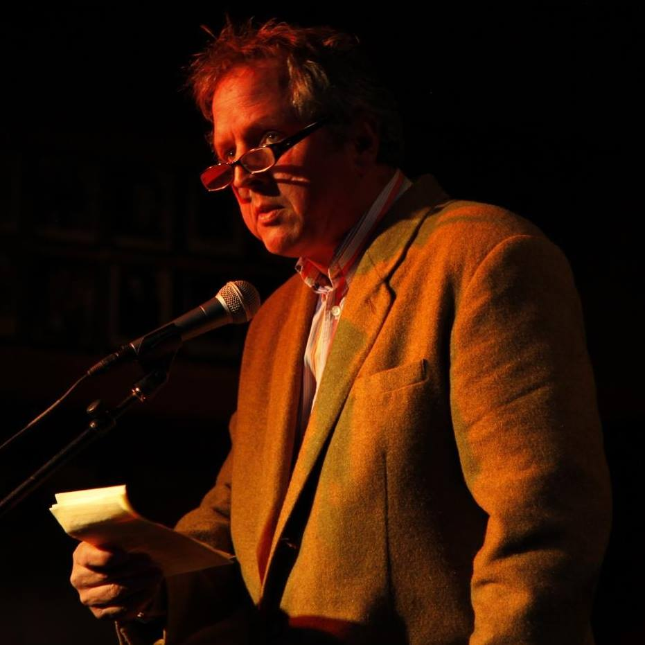 Barrett Warner reading his work at a poetry reading